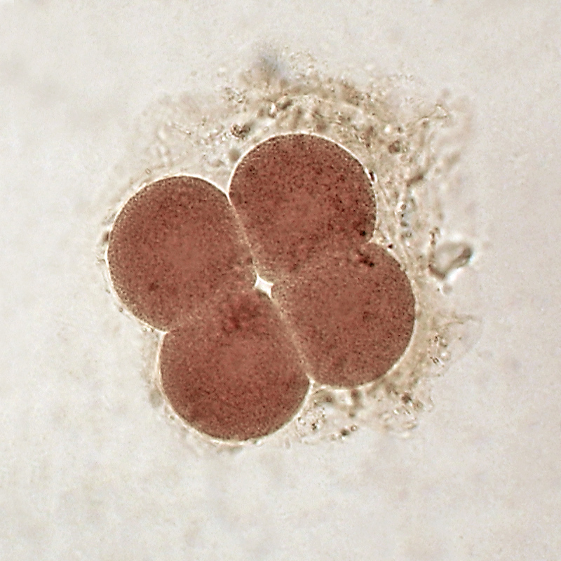 Lancelet's embryo, 4-cell stage